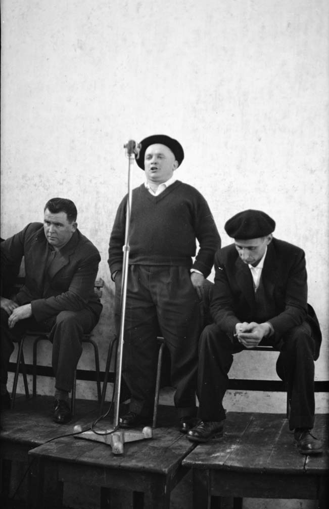 The bertsolari Mattin composing a bertso in Sara in 1960